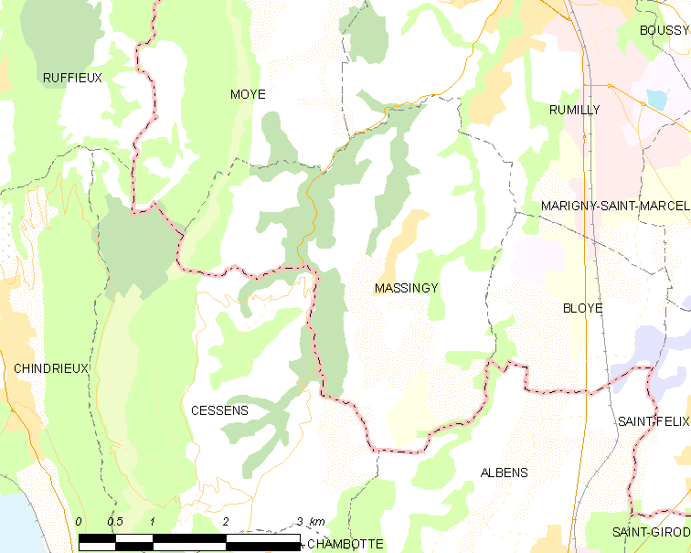 Map of French municipality Massingy